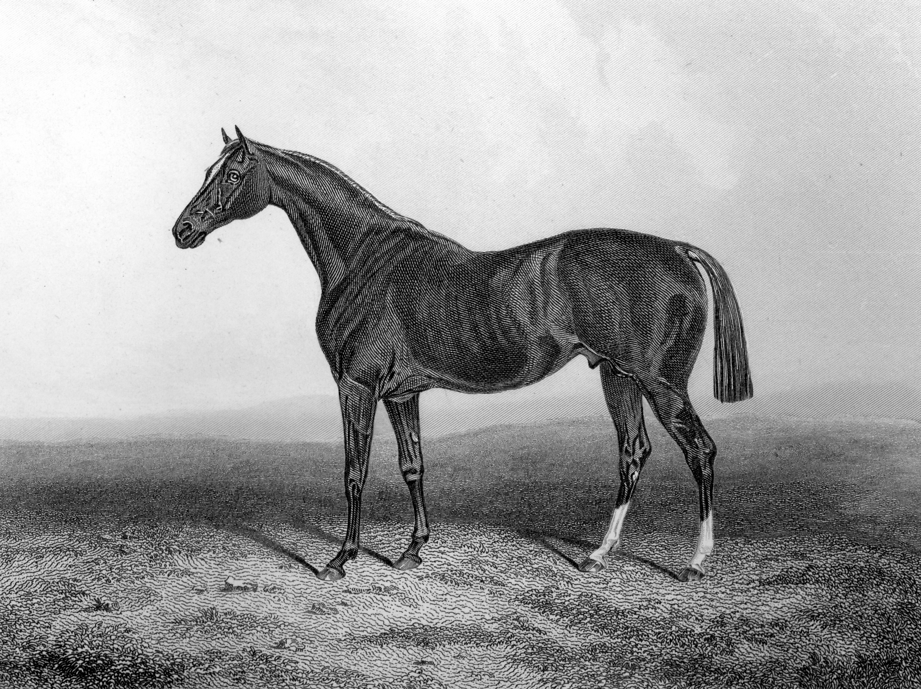 Glencoe (GB), a Thoroughbred stallion imported from Britain to the United States